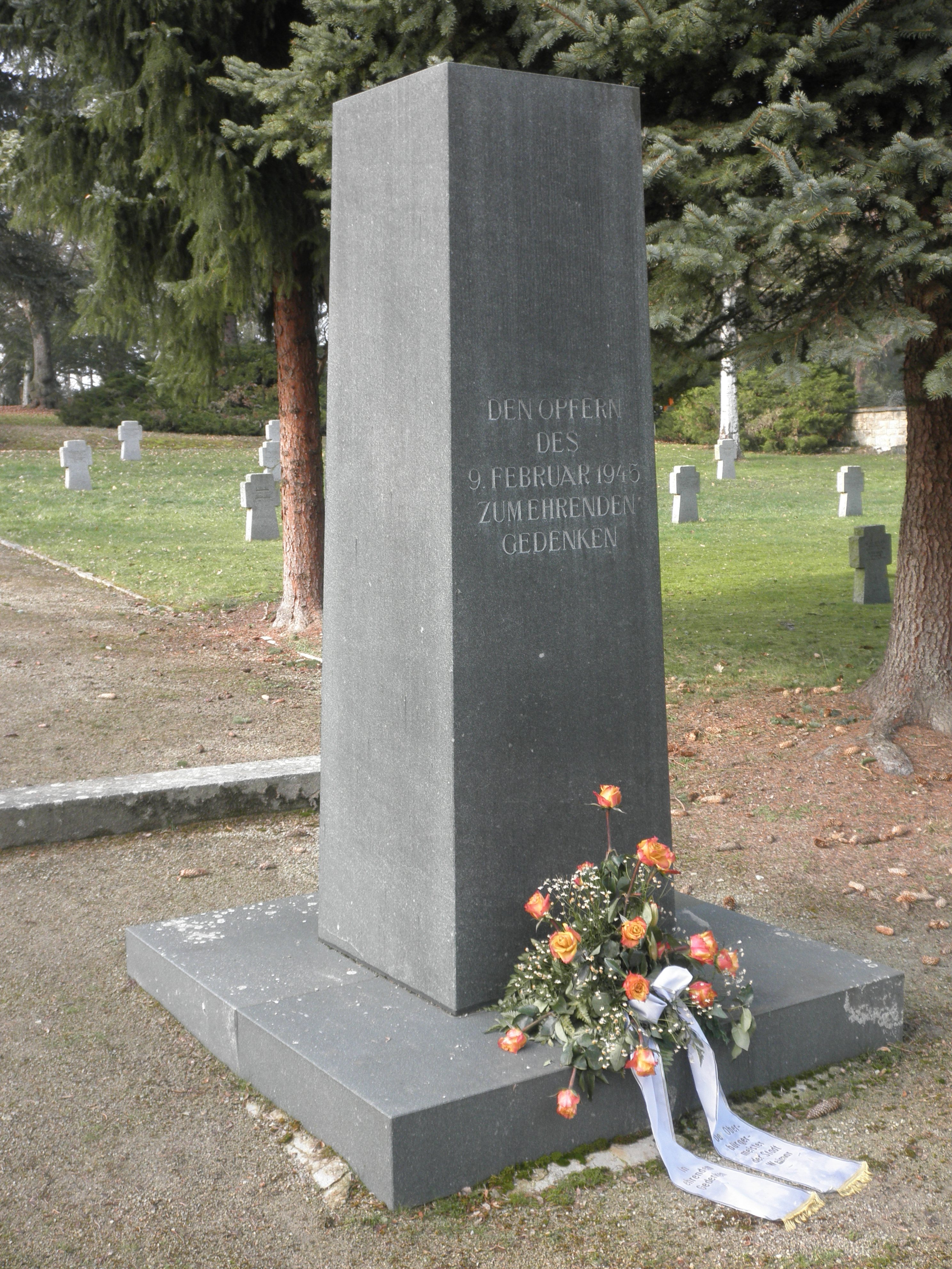 Monument for bombing victims in 1945 in Weimar in Thuringia